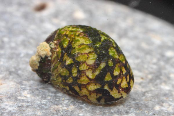 Theodoxus fluviatilis, River Mirna, Istria, Croatia